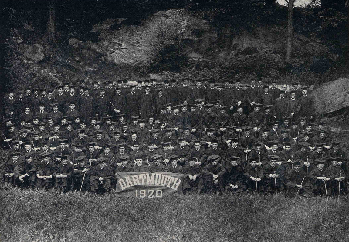 The class of 1920 of Dartmouth College posing as a group in the Bema